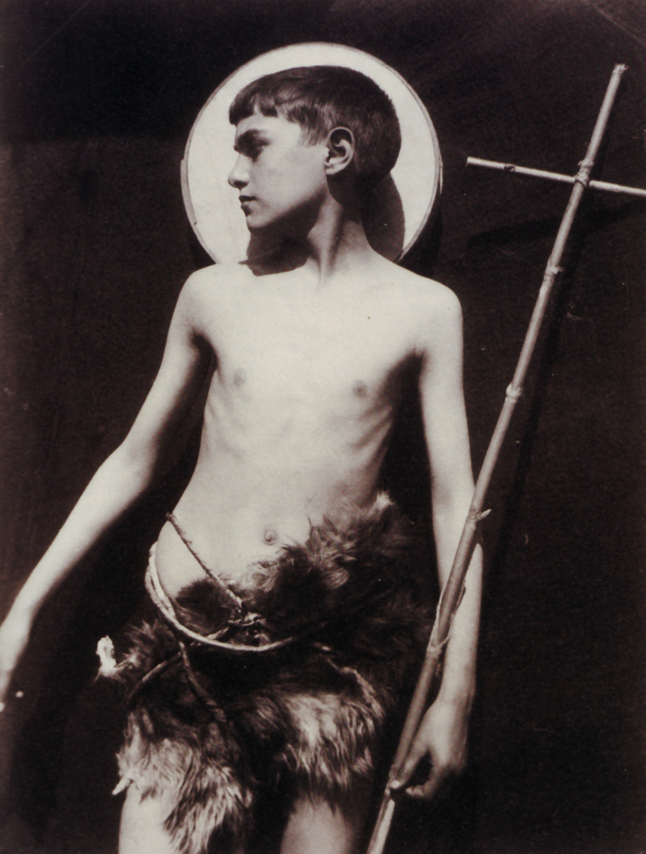 Wilhelm von Plüschow (1852-1930). Boy posed as John the Baptist. Catalogue number: 10277. Stamped.